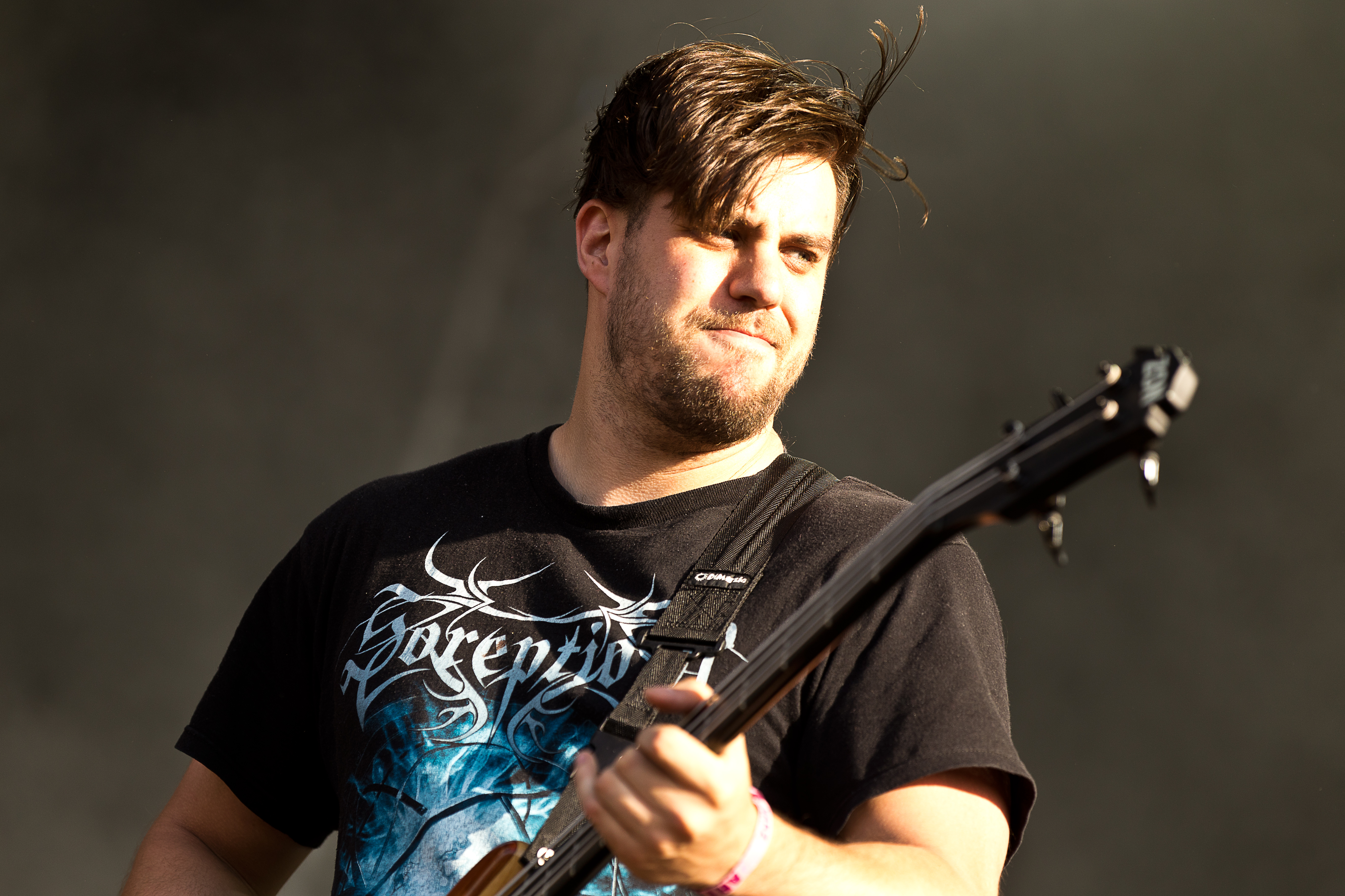 The american melodic death metal band The Black Dahlia Murder at the Rockharz Open Air 2015 in Ballenstedt/Germany.